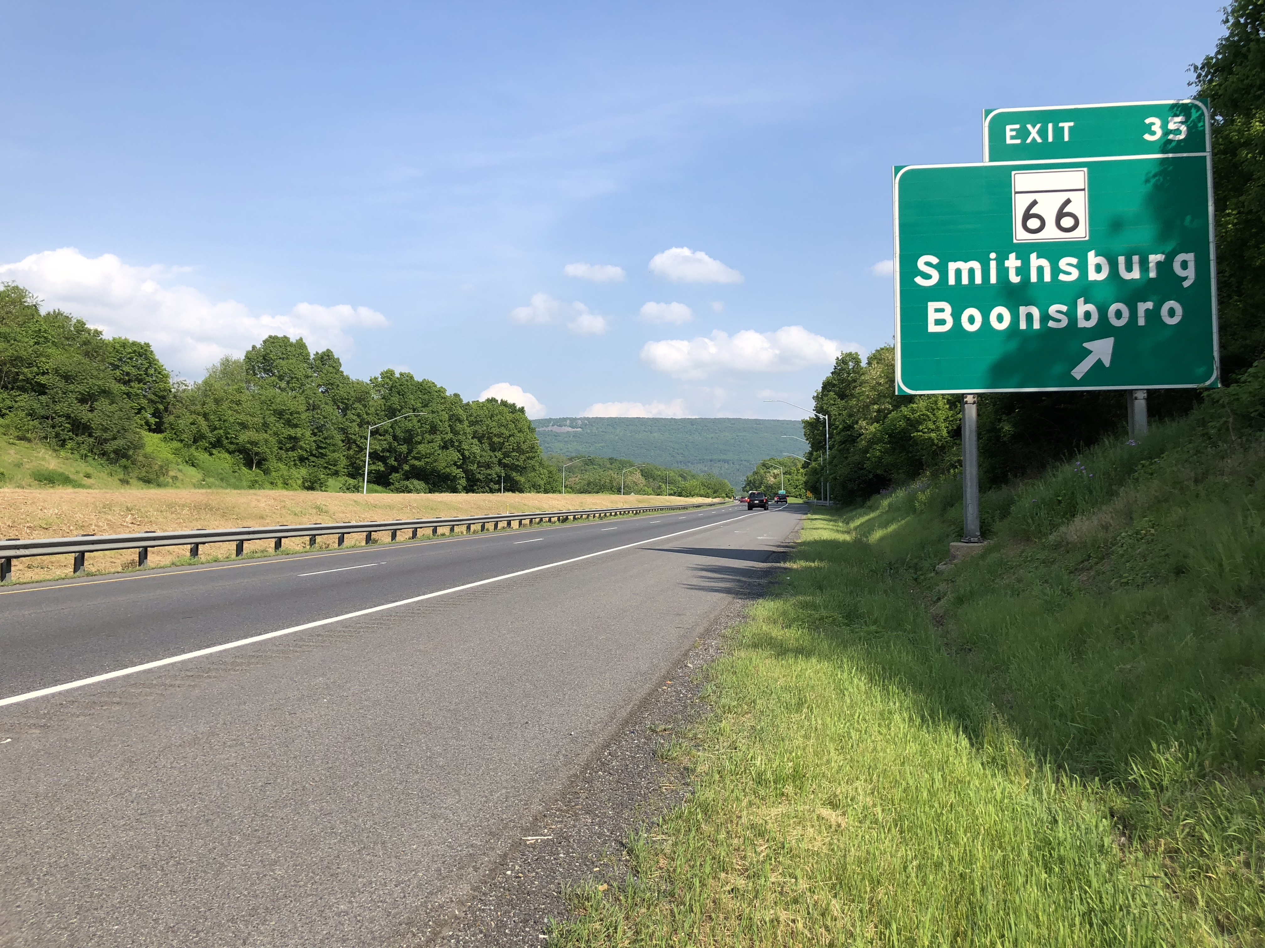 View east along Interstate 70 at Exit 35 (Maryland State Route 66, Smithsburg, Boonsboro) in Beaver Creek, Washington County, Maryland